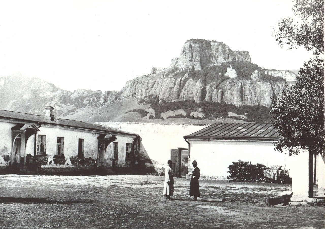 Воронцово-Карачаевский, нач. ХХ века